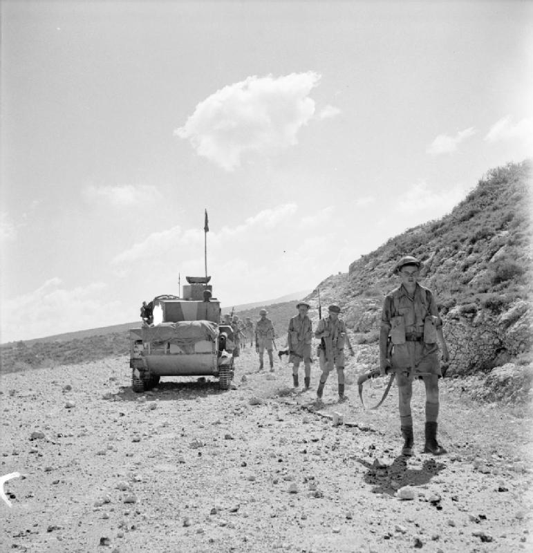 The Campaign in Syria 1941 British infantry supported by a Vickers Light Tank Mk VI during the advance into Syria, 13 June 1941.